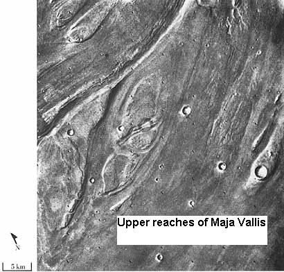 Streamlined islands in Maja Valles, as seen by Viking. Note: the feature label for Maja Valles is misspelled in this image.